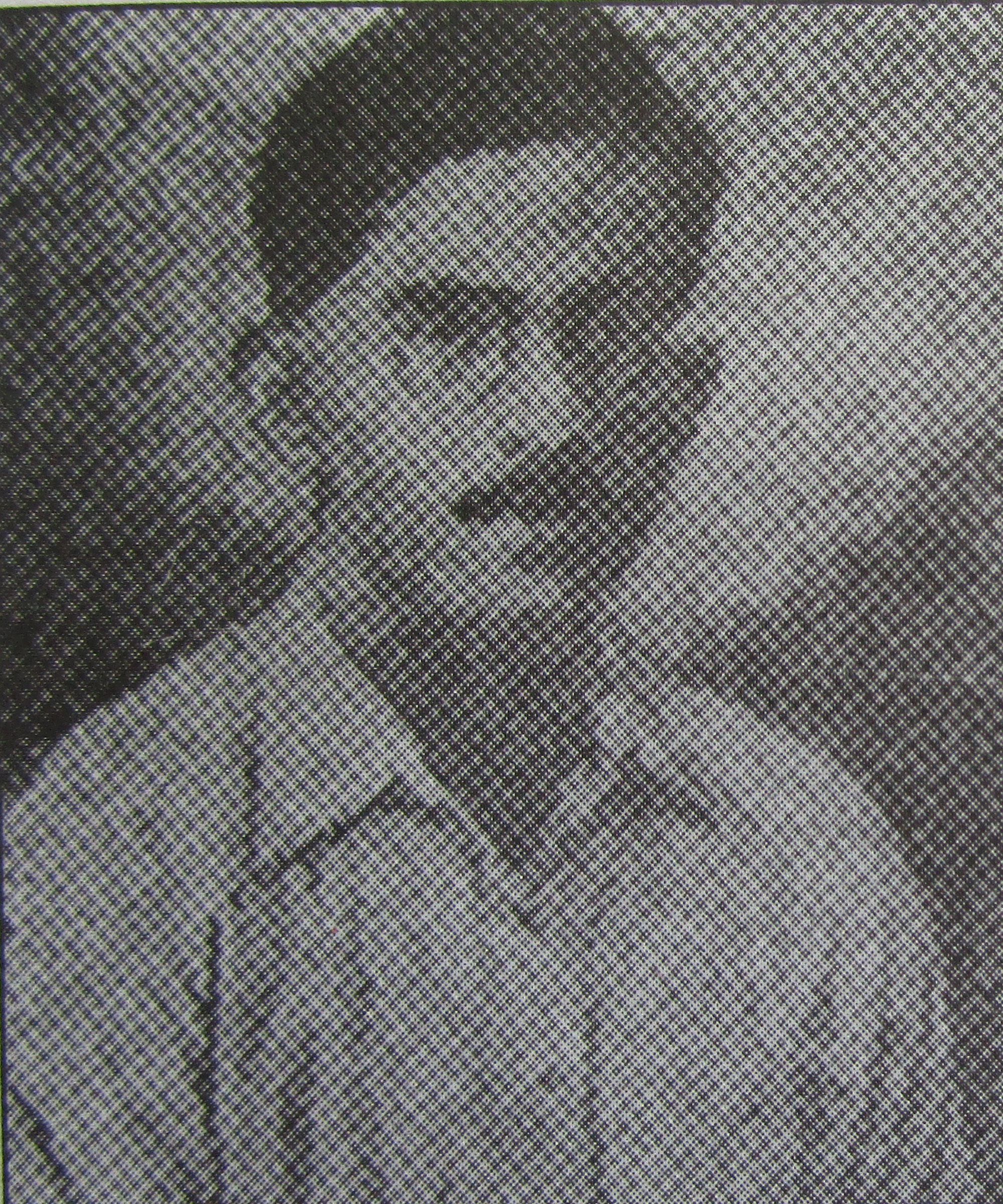 Jiban Ghoshal